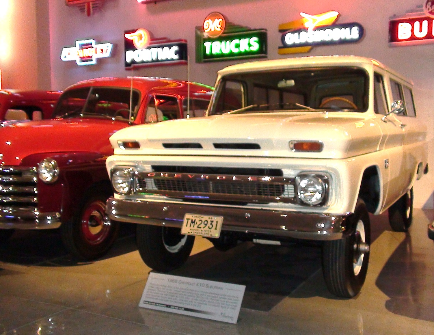 GM Heritage Center.